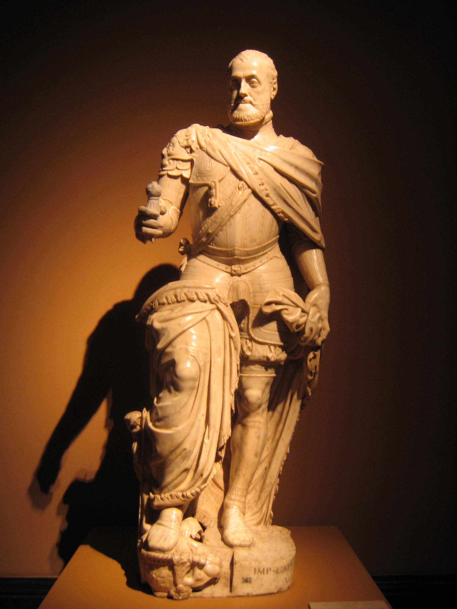 Statue of Holy Roman Emperor Charles V (1500–1558)